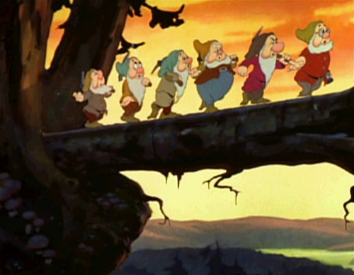 Snow White and the Seven Dwarfs is the first animated feature in the Disney animated features canon. It was produced by Walt Disney Productions, premiered on December 21, 1937, and was originally released to theatres by RKO Radio Pictures on February 8, 1938.